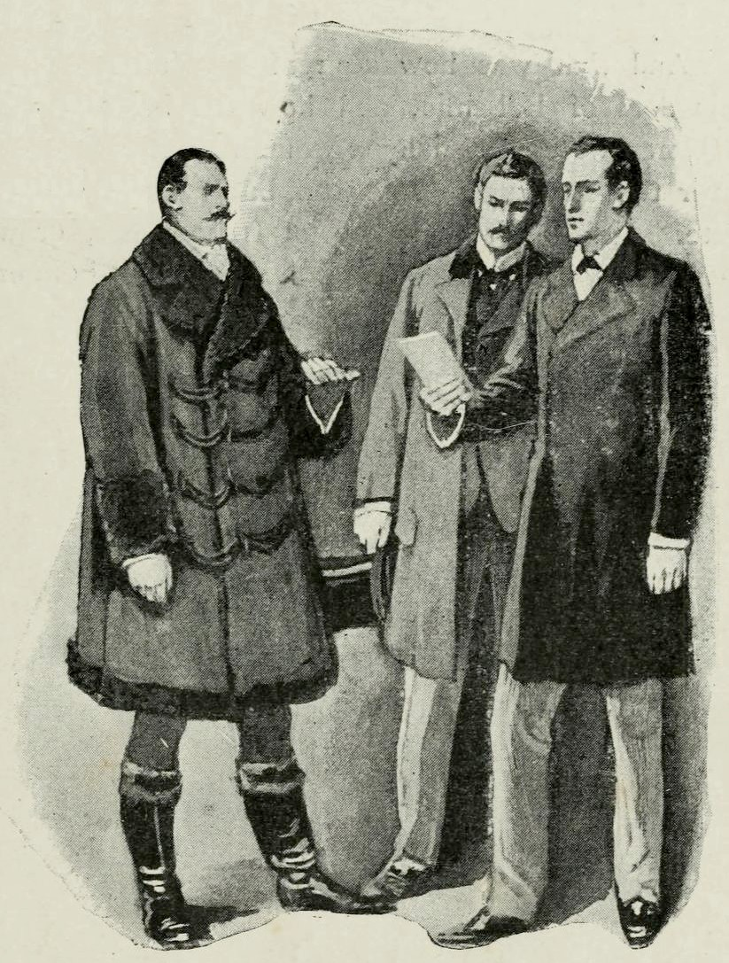 Illustration of the short story A Scandal in Bohemia, which appeared in The Strand Magazine in July, 1891. This illustration appeared on page 74, and is captioned, "THIS PHOTOGRAPH!"